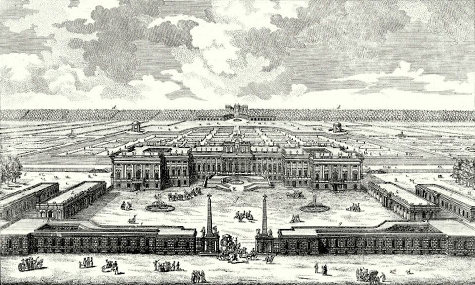 Drawing of Architecture; copperplate engraving, very probably from "Entwurf einer historischen Architektur". Shows Fischer v. Erlach's second design for Schönbrunn Palace. First construction works took from 1696-1701. The palace was inhabited since 1700, but was not yet completely finished when in 1743 empress Maria Theresa decided to make major changes.